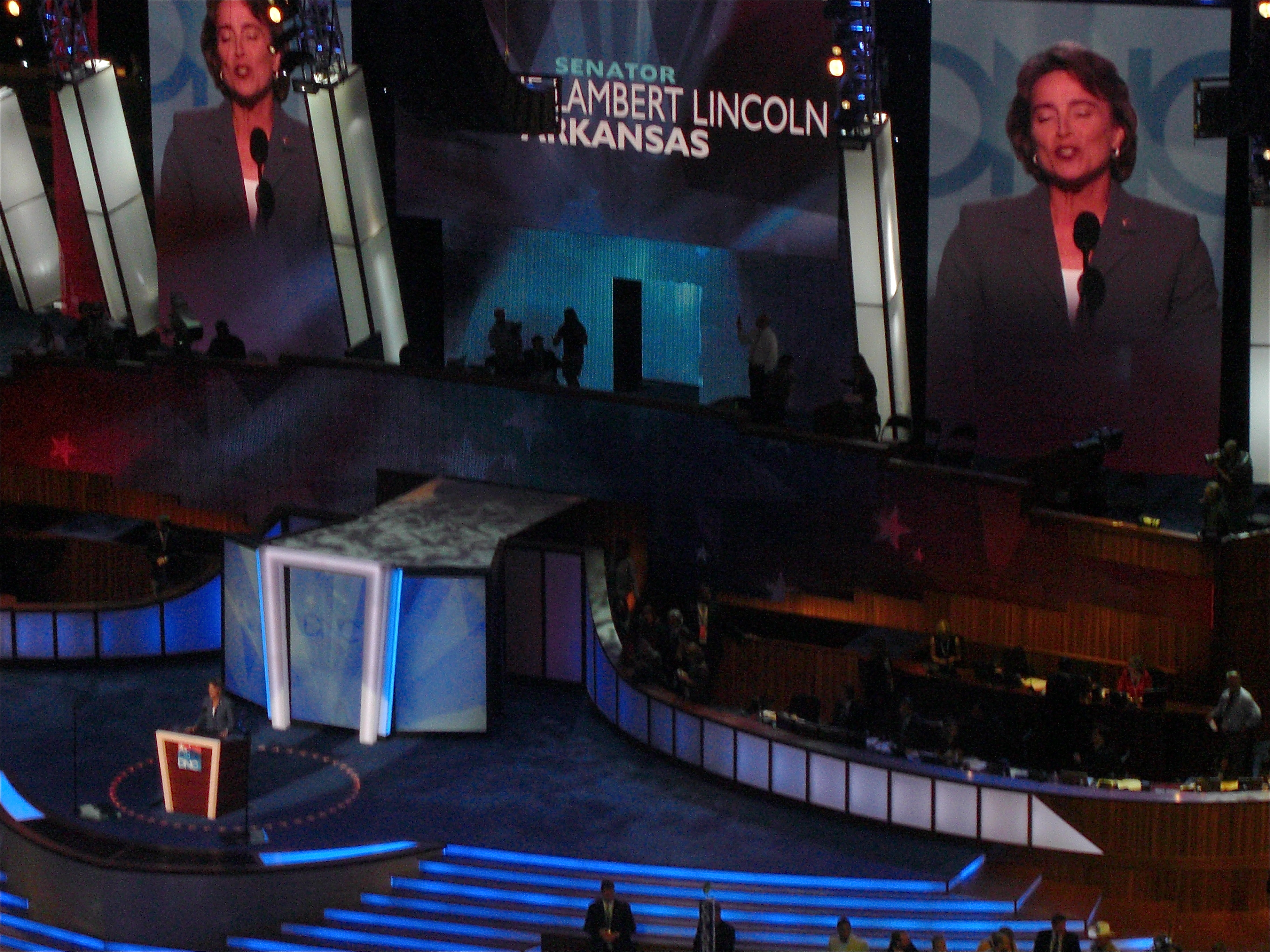 Blanche Lincoln speaks during the second day of the 2008 Democratic National Convention in Denver, Colorado, United States.